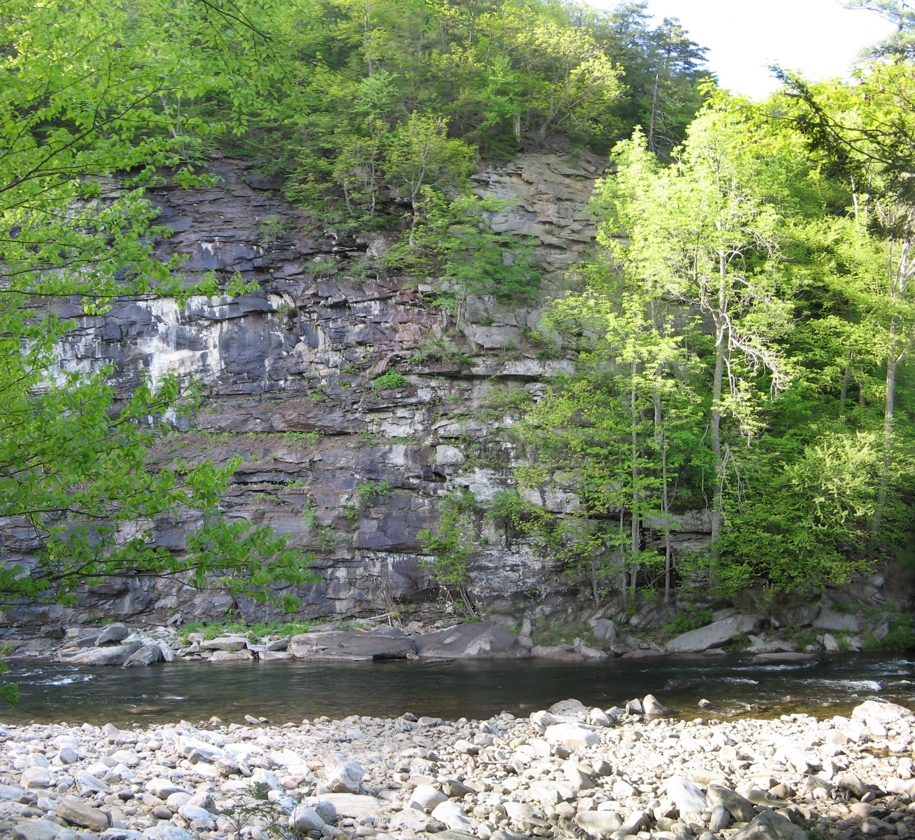 Cliff face on Loyalsock Creek in Worlds End State Park, near Forksville, Sullivan County, Pennsylvania, USA